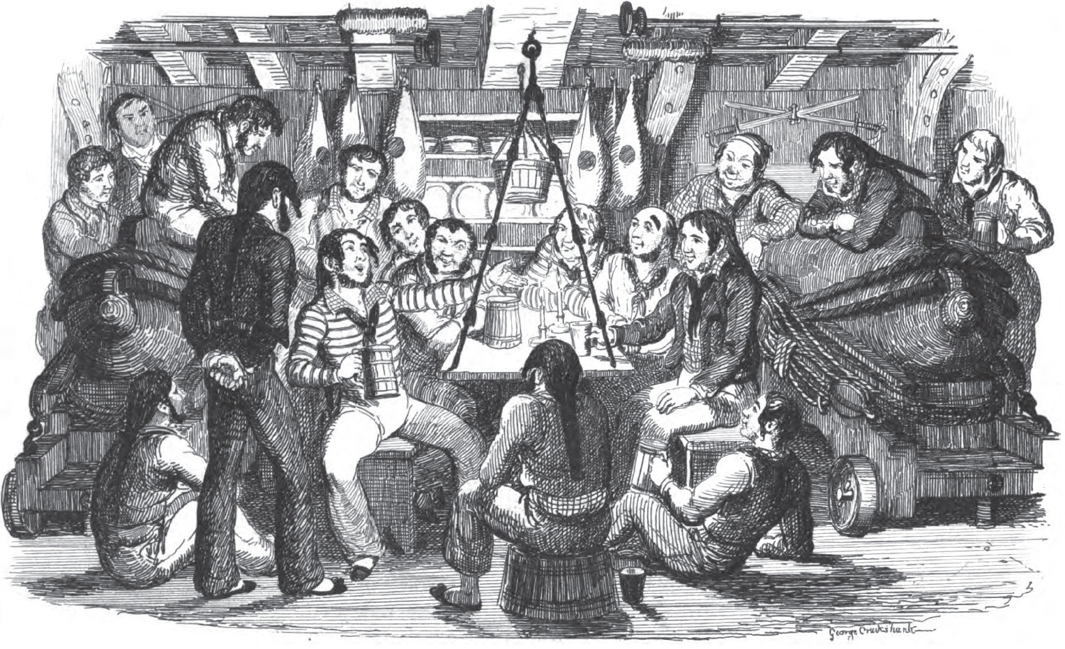 This is an illustration from the book "Songs, naval and national" by Thomas Dibdin, published in London, England in 1841. The caption is "Saturday Night At Sea," and shows a group of sailors amusing themselves while off duty by singing. The illustration itself is by George Cruikshank (d. 1878).